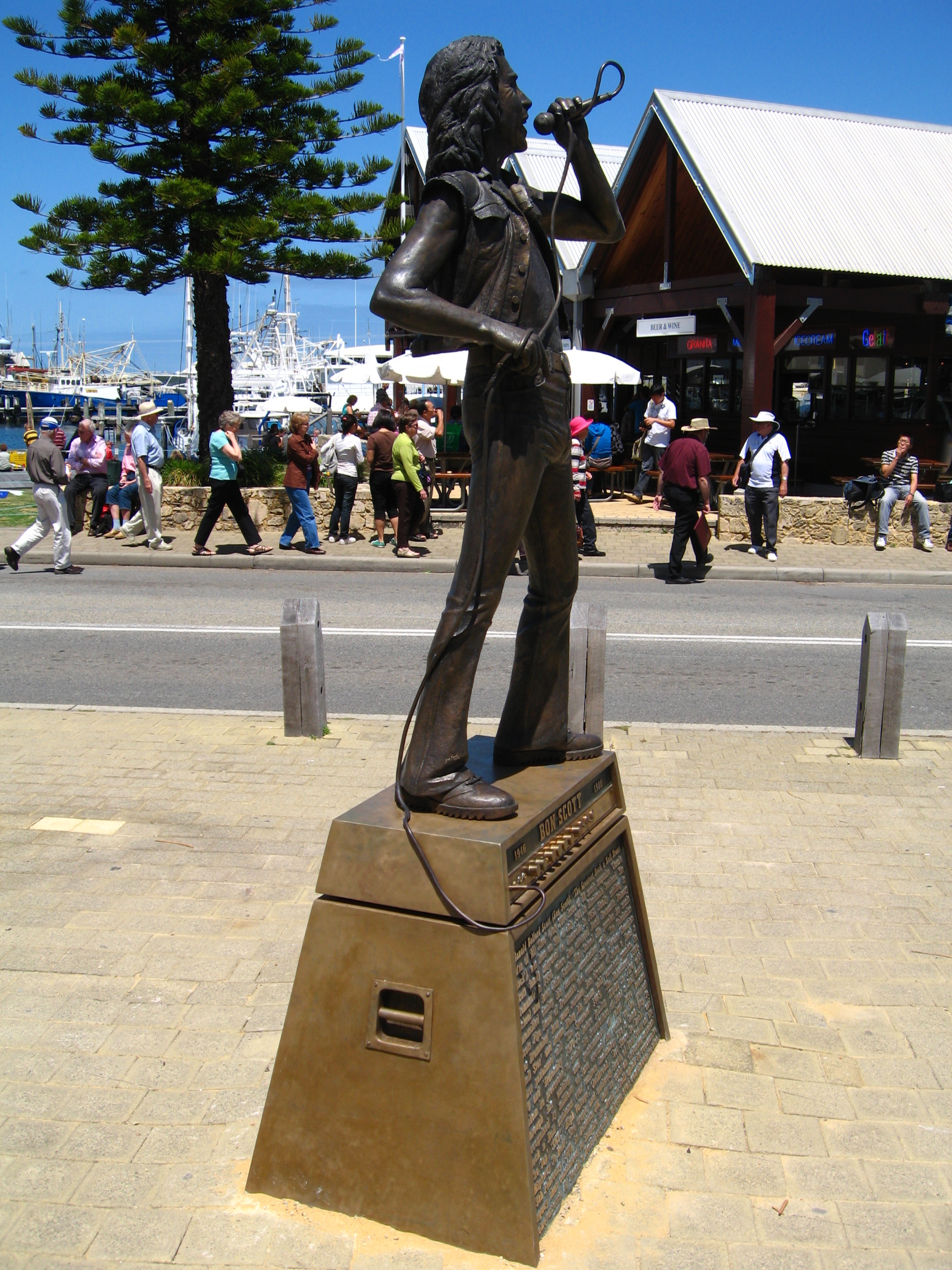 Statue of Bon Scott by Greg James. Fisherman's Wharf, Fremantle, Western Australia.